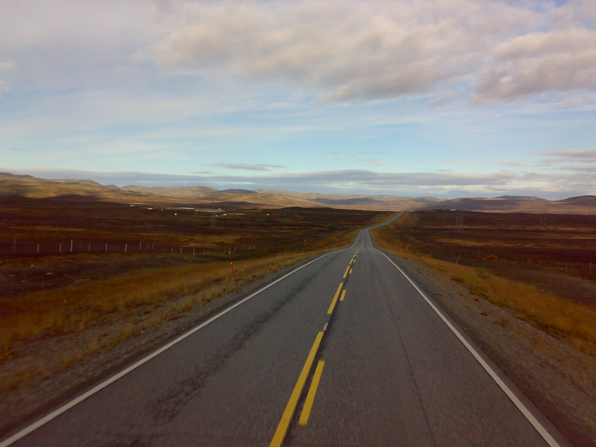 Road E6 at Sennalandet between Alta and Kvalsund, Norway